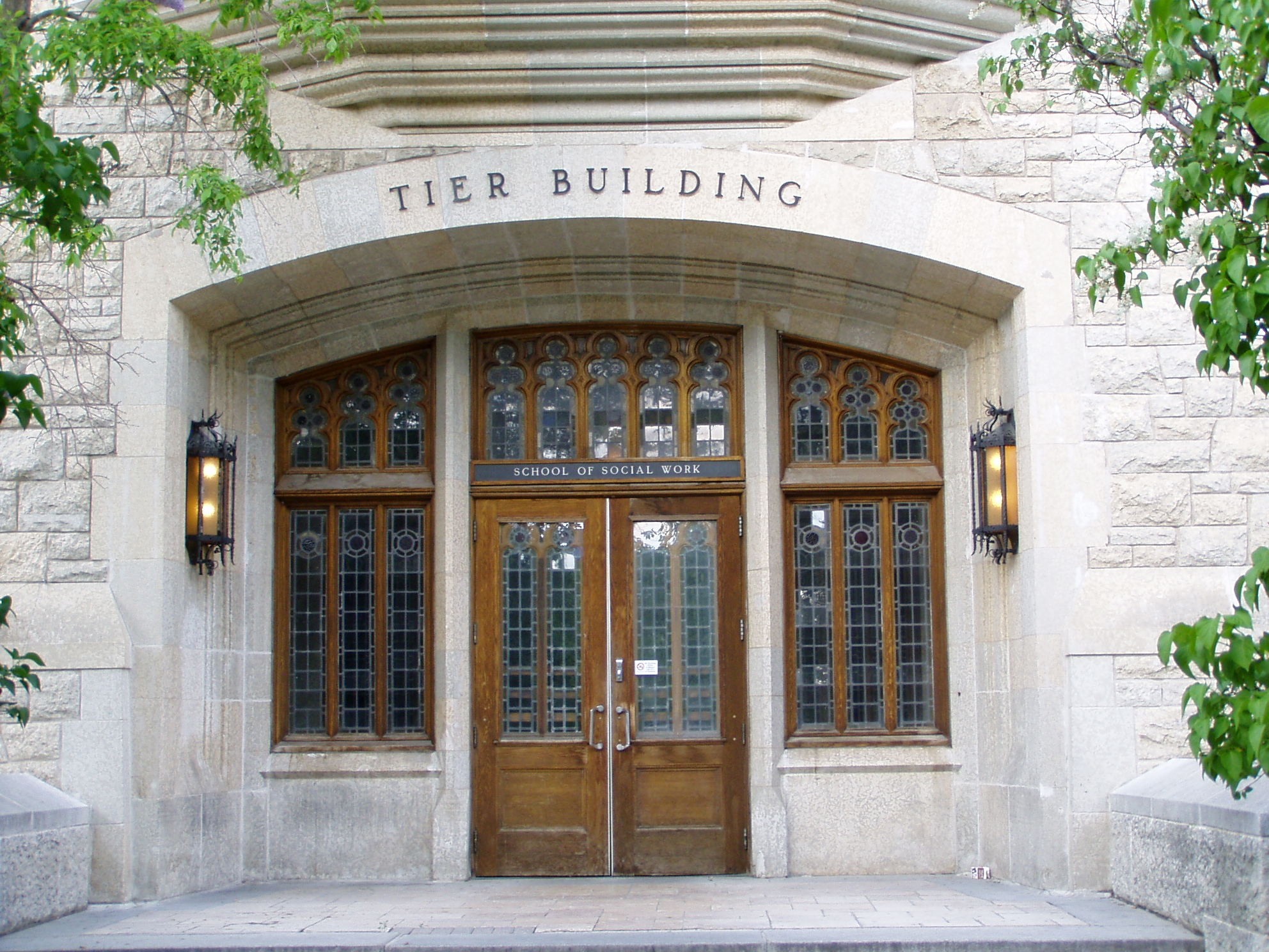 Tier Building, University of Manitoba, Winnipeg, Manitoba, Canada.